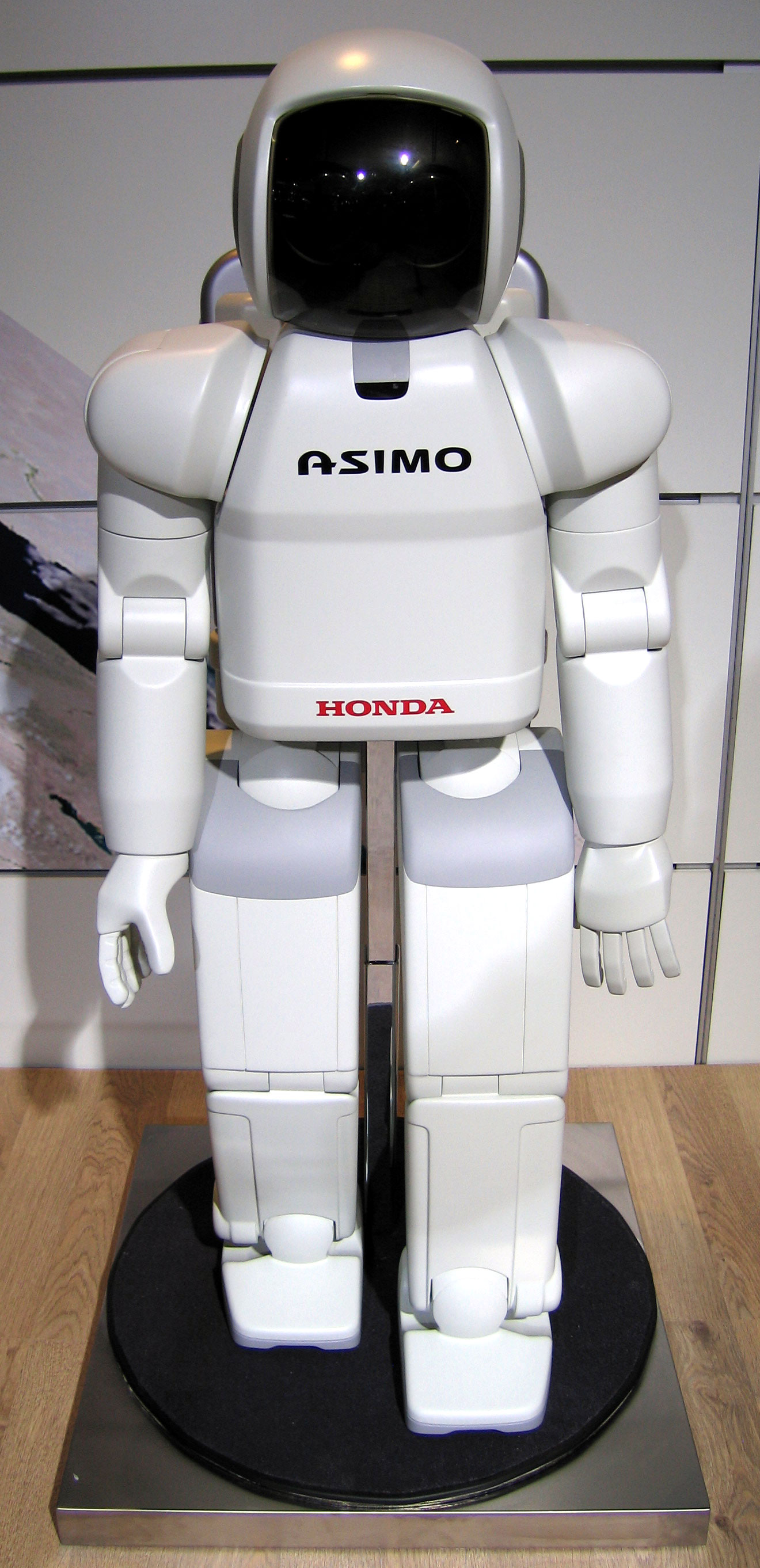 Honda ASIMO at the IAA 2007